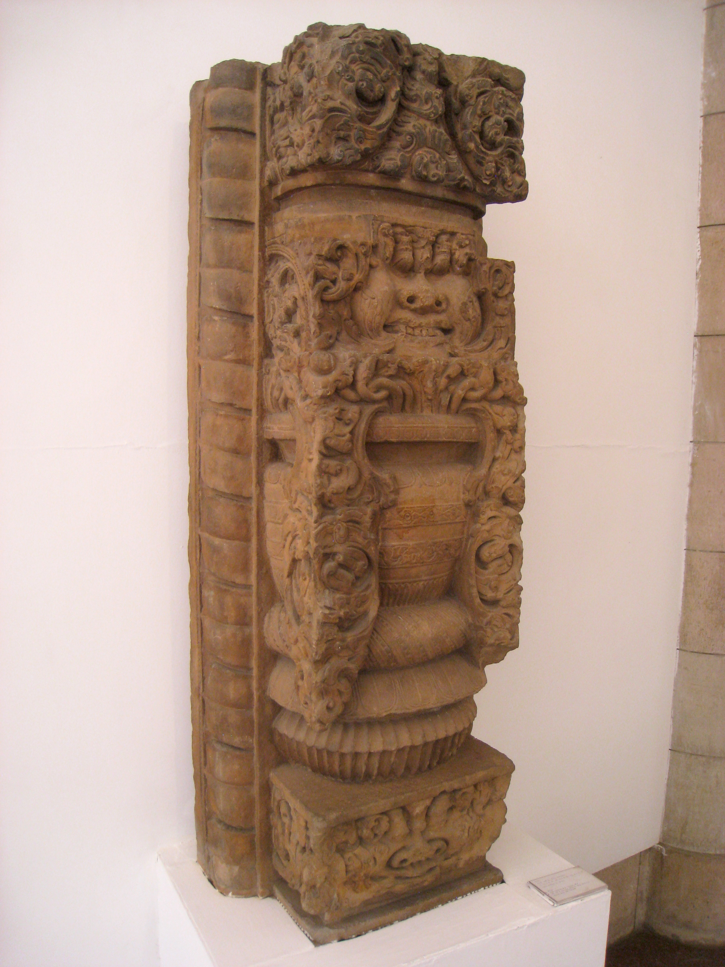 Stone sculpture in National Museum, New Delhi, India.